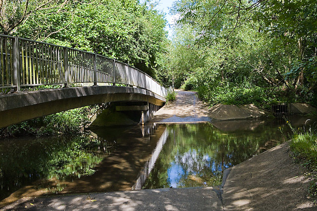 Doncaster Drove is the byway fording the brook here. Stoenham Lane is behind photographer.